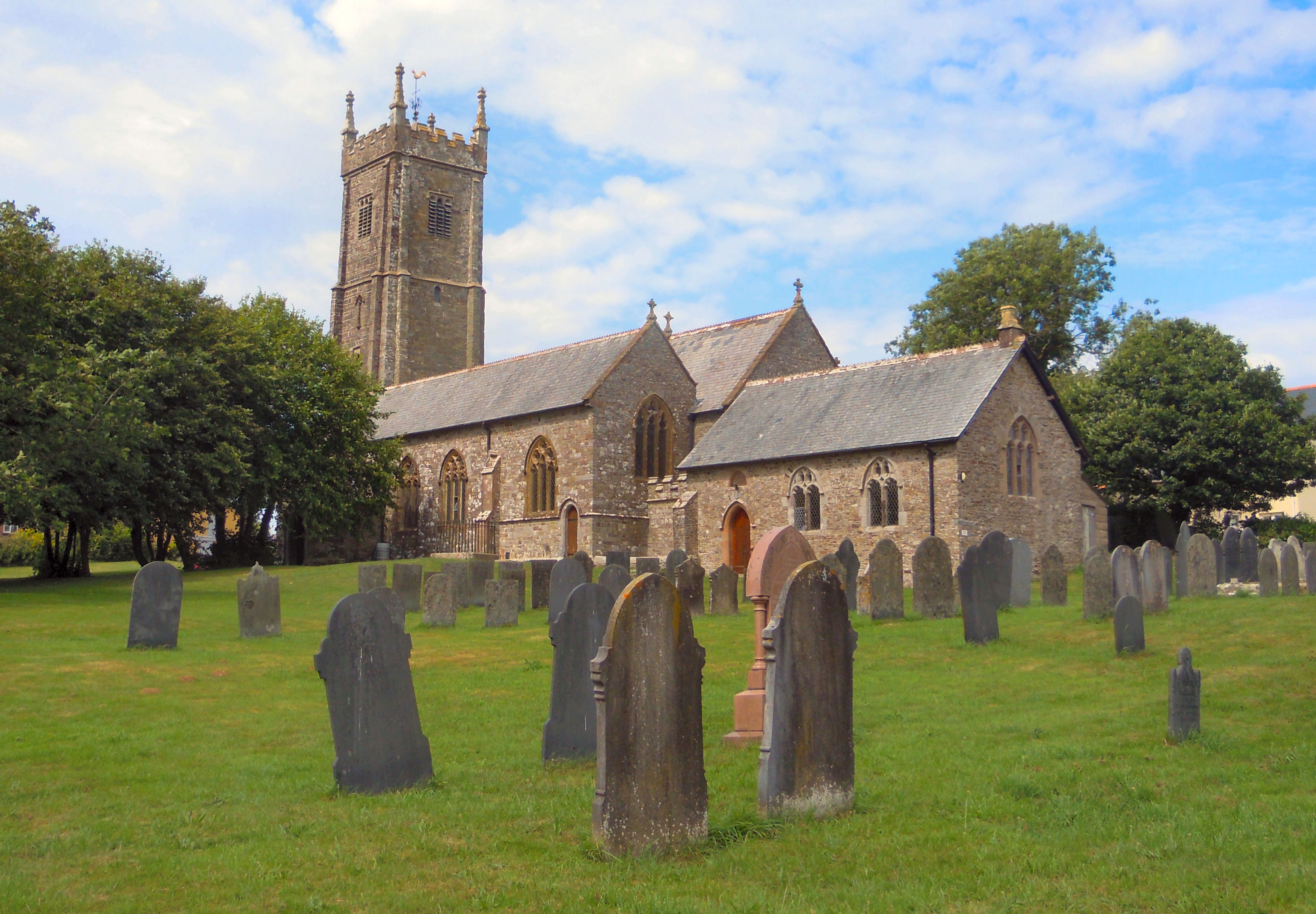 The Anglican parish church of St Mary and St Benedict in Buckland Brewer in North Devon